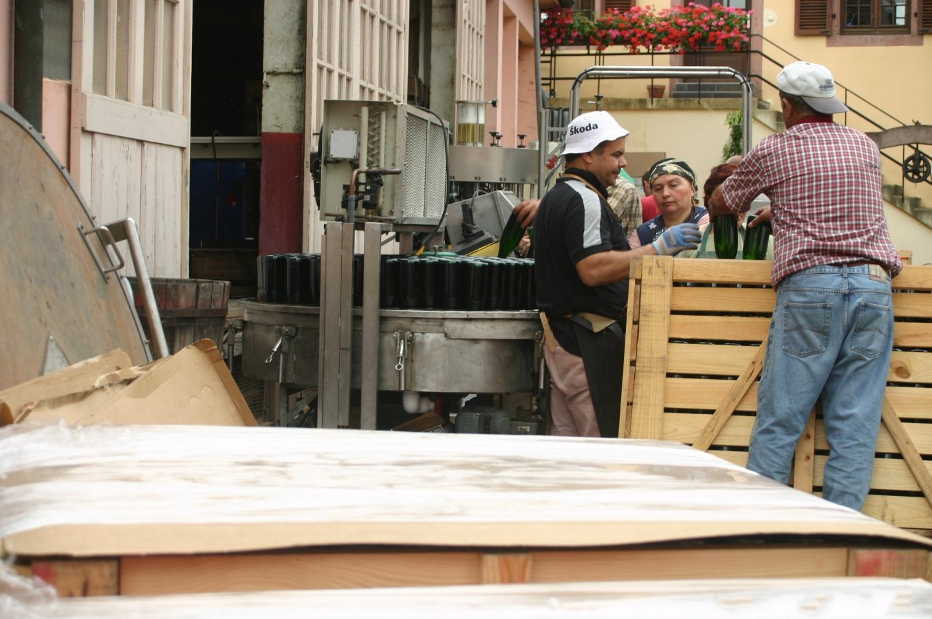 Produktion of Cremant d'Alsace at Turckheim.